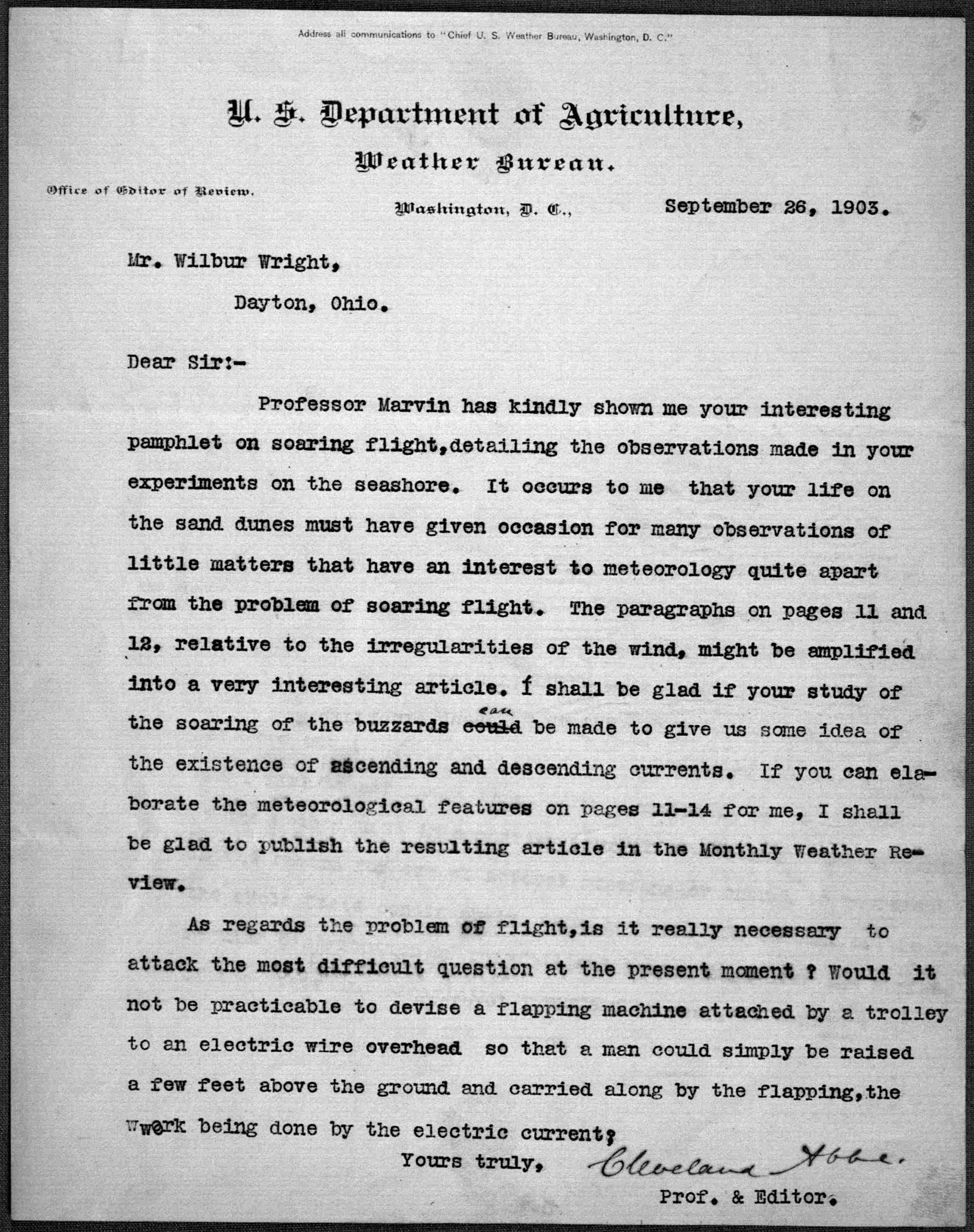 Letter from Cleveland Abbe offering to publish Wright's article on "soaring flight" in the Monthly Weather Review.